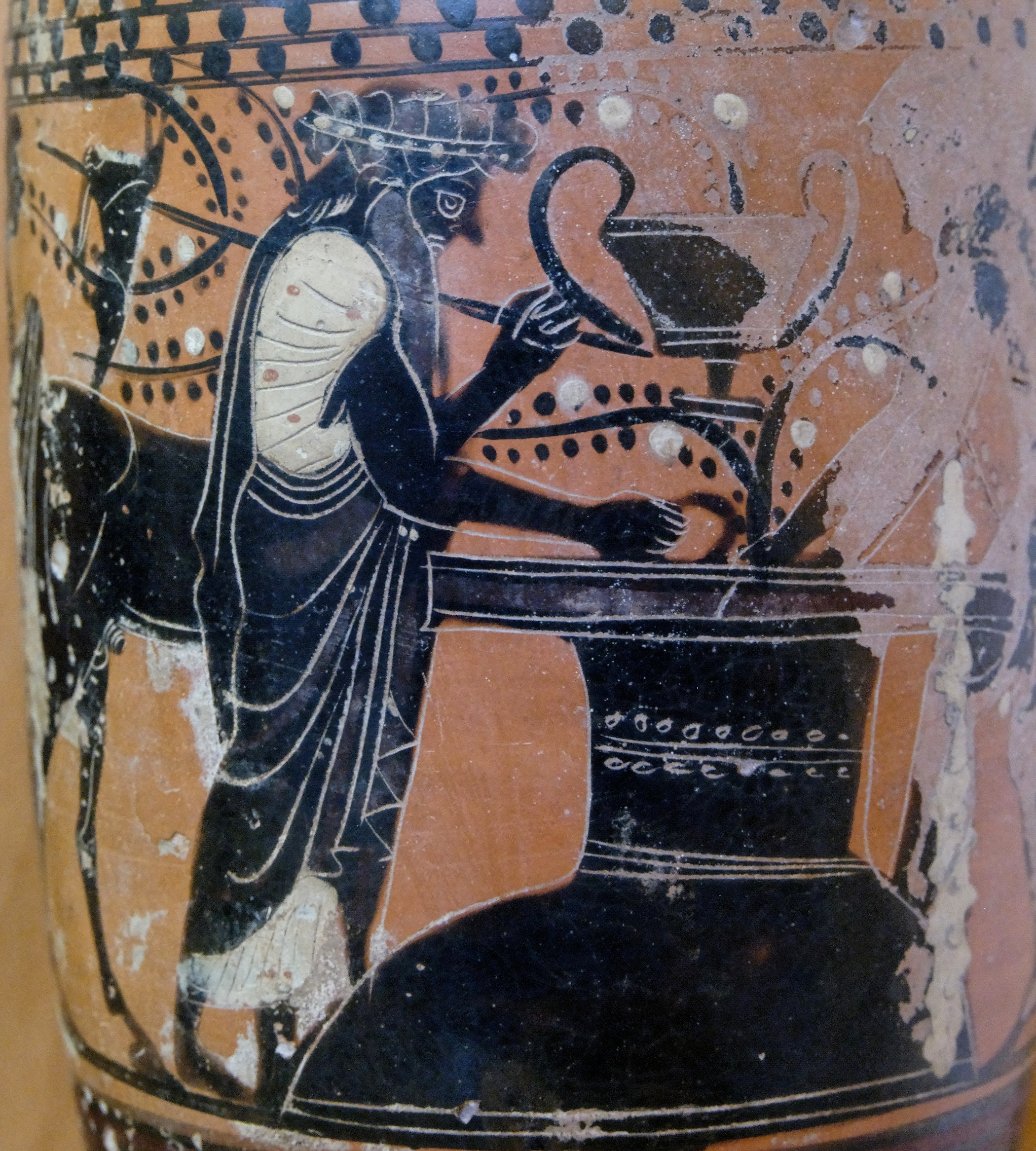 Pholos drawing wine for Herakles. Attic black-figure lekythos.